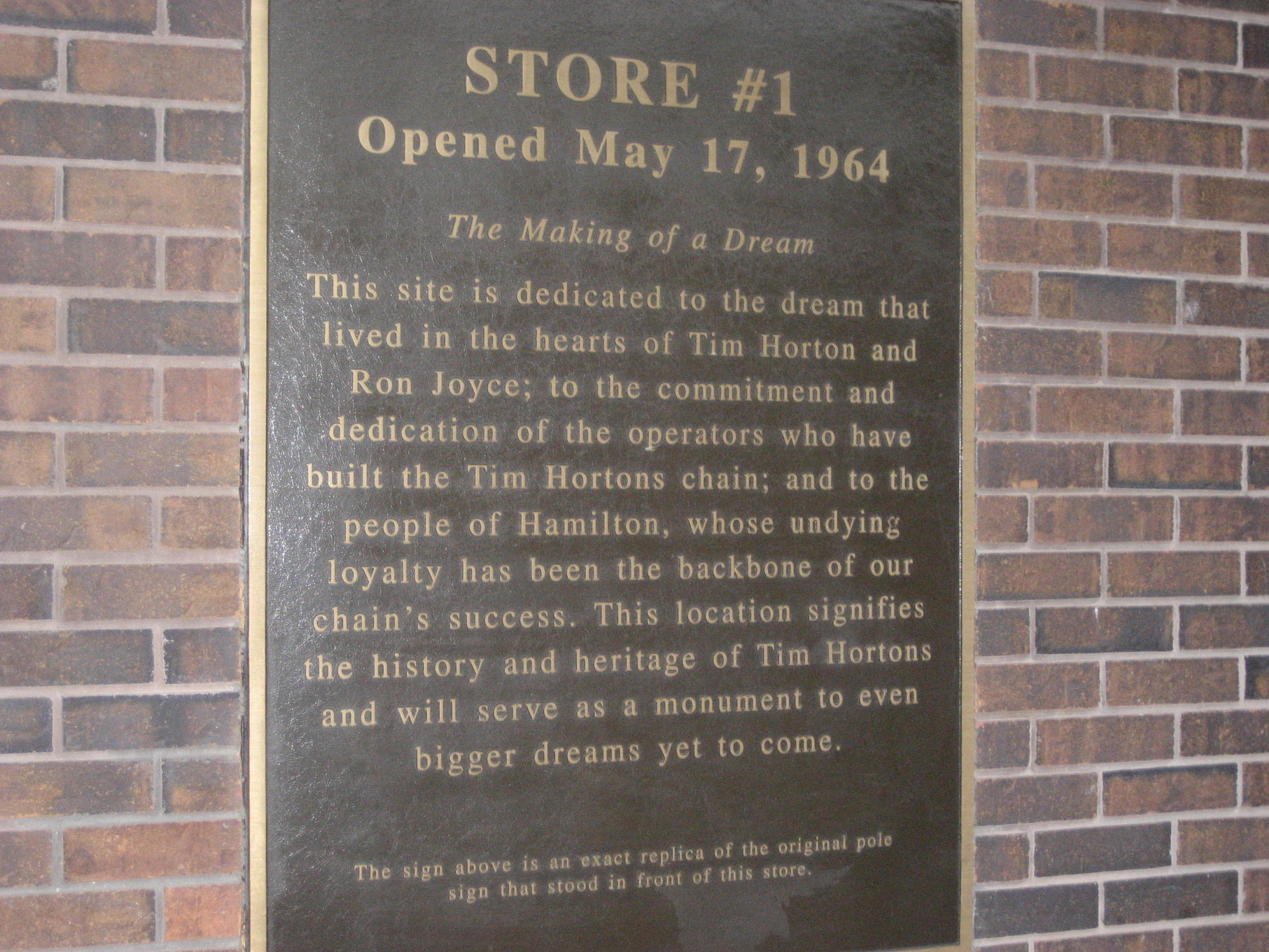 Site of first Tim Horton's store, Ottawa Street North, Hamilton, Ontario